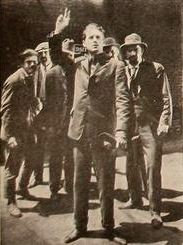 Still from the American drama film Dangerous Hours (1919) with Lloyd Hughes, on page 3096 of the April 3, 1920 Motion Picture News. The working title of the film was Americanism (Versus Bolshevism).